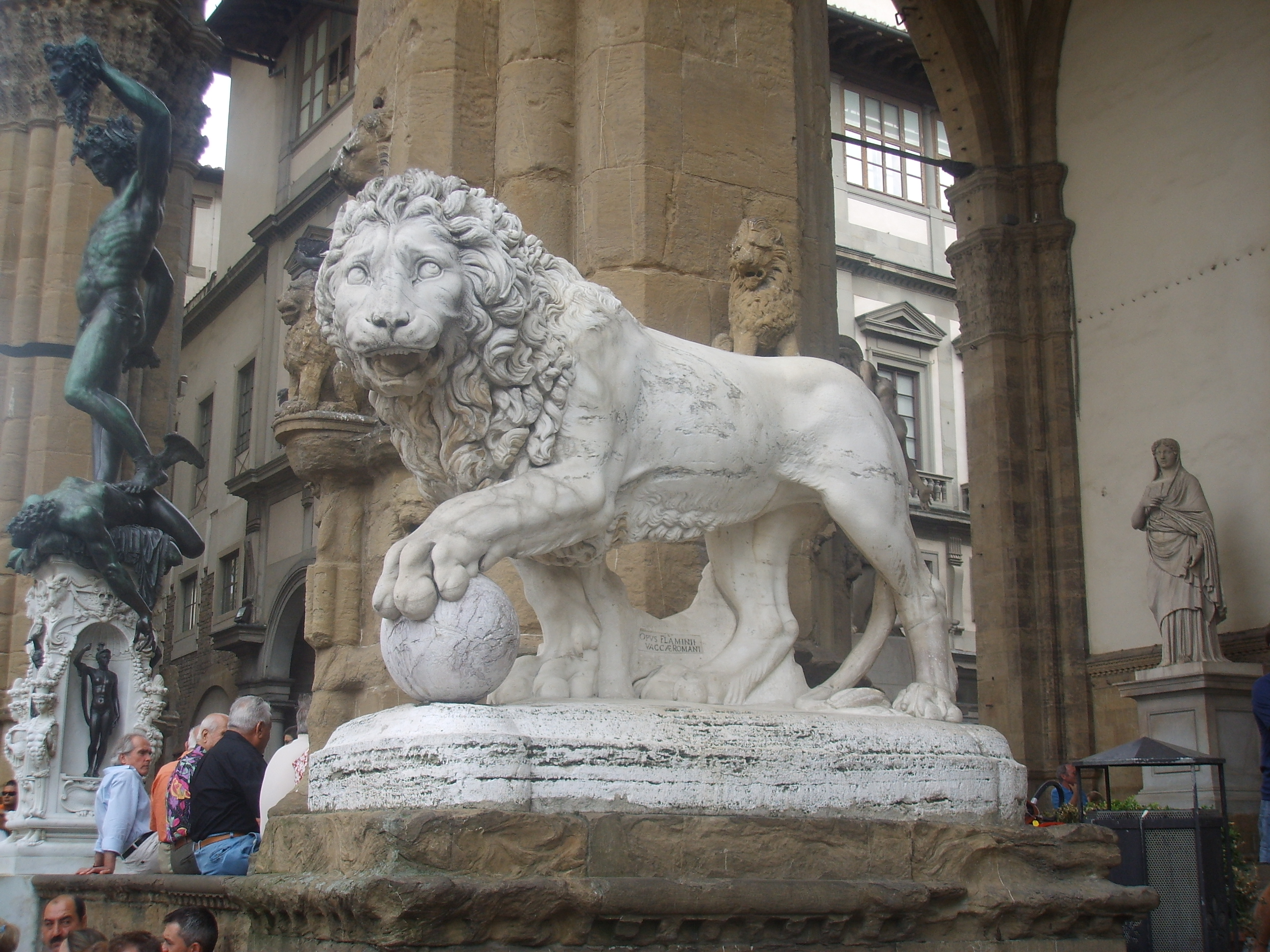 Lion of the Loggia dei Lanzi in Florence, Italy